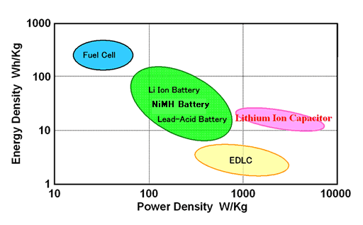 Ragone plot showing the comparison of the Energy Density vs. Power Density for Lithium Ion Capacitor with different technologies